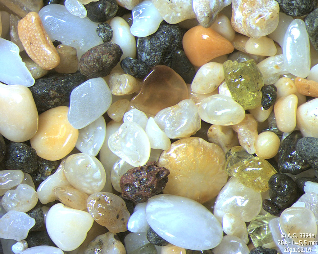 Photomicrograph sand beach Kalalau - Kauai Island - Hawaii (Field width = 5.5 mm)